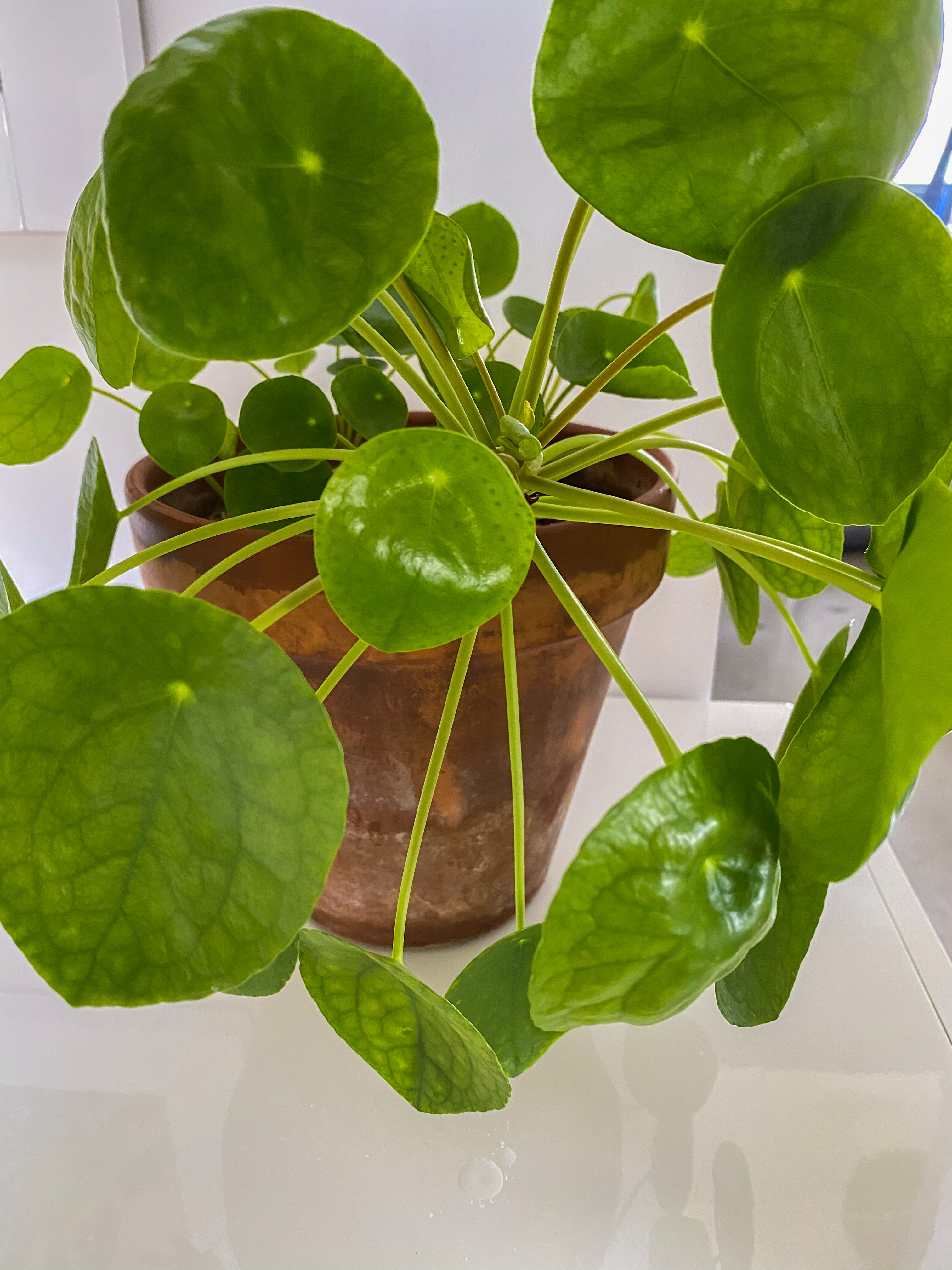 A Pilea in the Miami Jungle